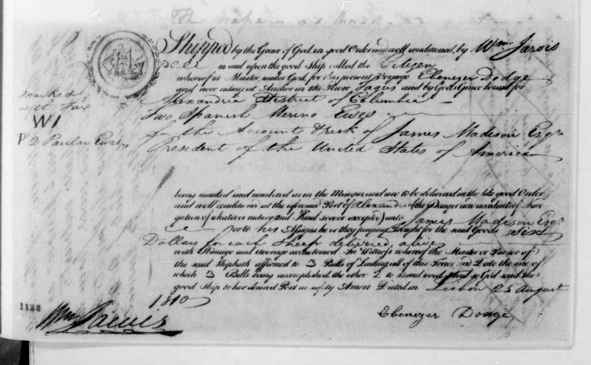 Bill of lading for two Spanish merino ewes shipped by United States Consul to LIsbon, Portugal, William Jarvis, to President James Madison, aboard the ship Citizen bound for Alexandria, Virginia. The bill of lading accompanied a letter from Jarvis, a frequent correspondent of President Madison. The James Madison Papers, The Library of Congress, Washington, D.C.